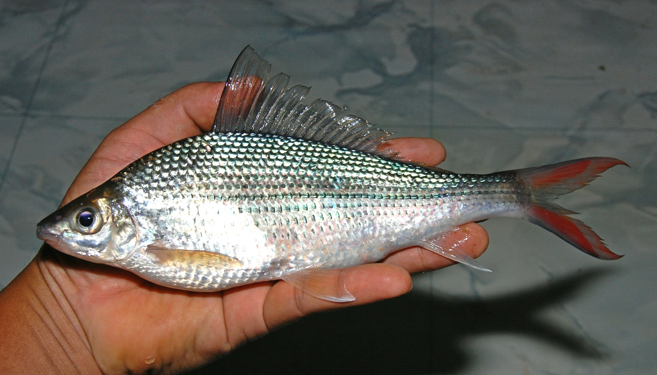 Labiobarbus fasciatus, 180 mm SL (standard length). From Kawan Batu River (tributary of Mentaya River), Upper Seruyan, Central Kalimantan, Indonesia.